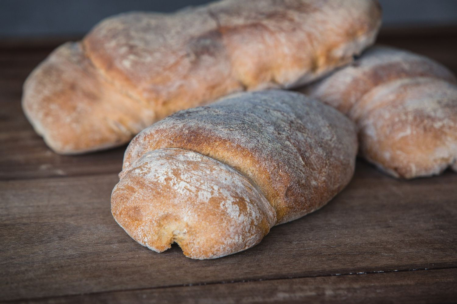 Pão de Mafra